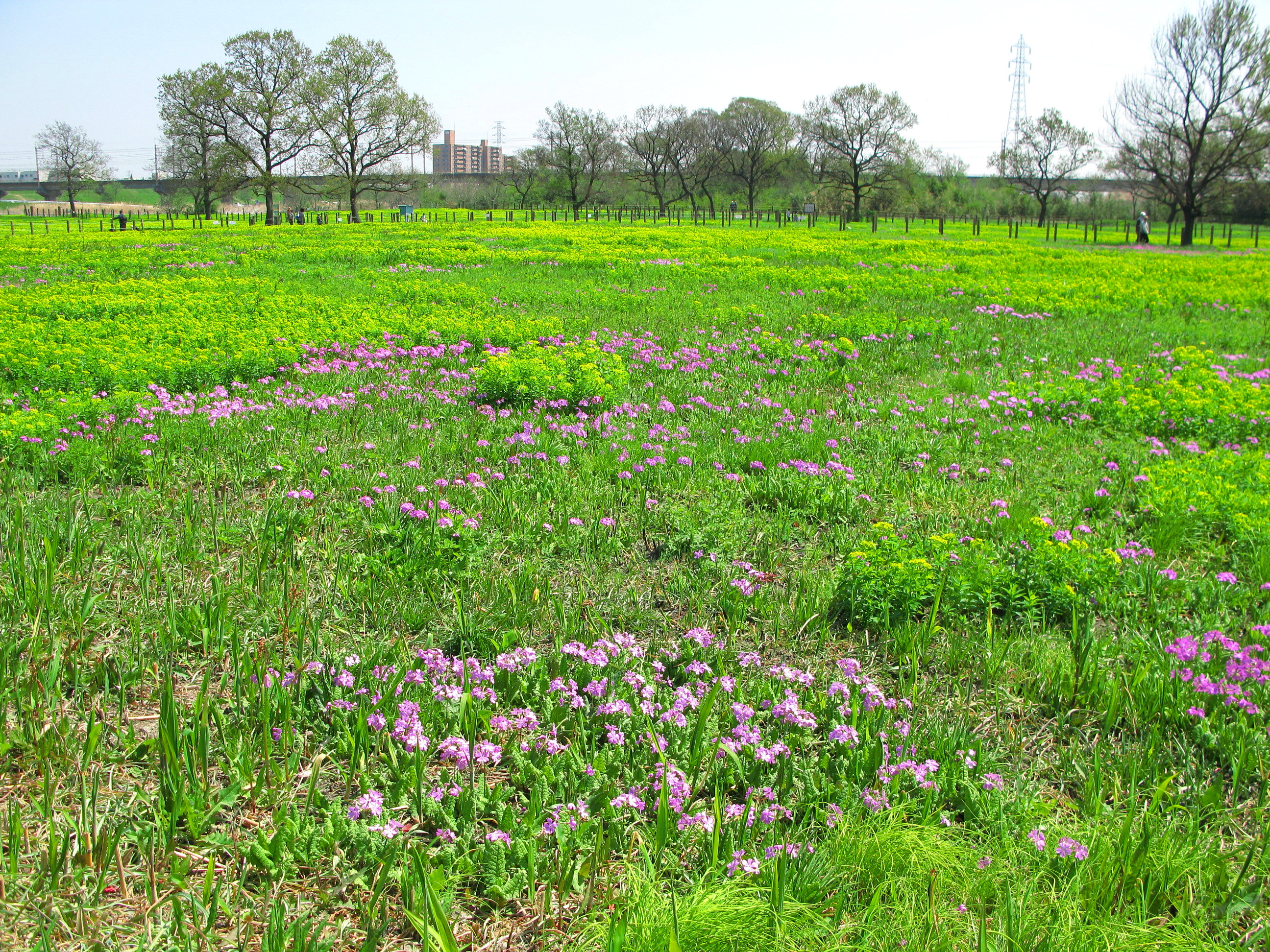 view of a group of primroses in the Tajimagahara Primula sieboldii habitat (Sakura-ku, Saitama)